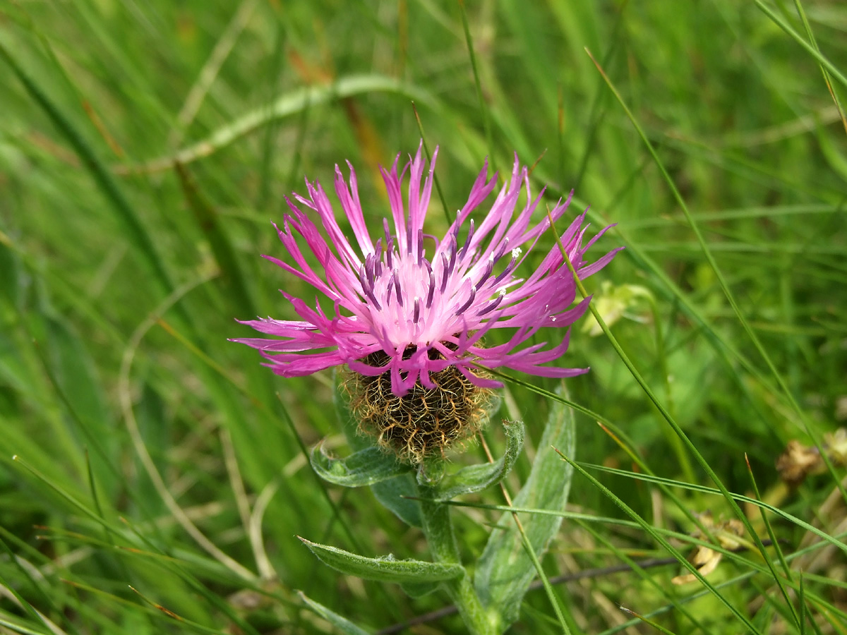 Flower of Centaurea nervosa, Italy